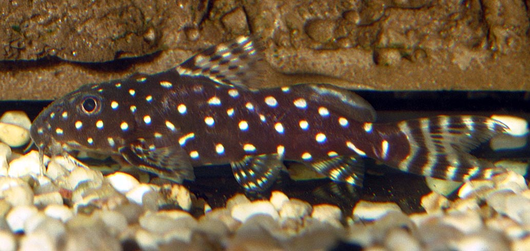 Synodontis angelica